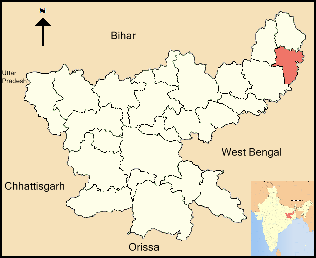 A locator map of Pakur district, Jharkhand state, India